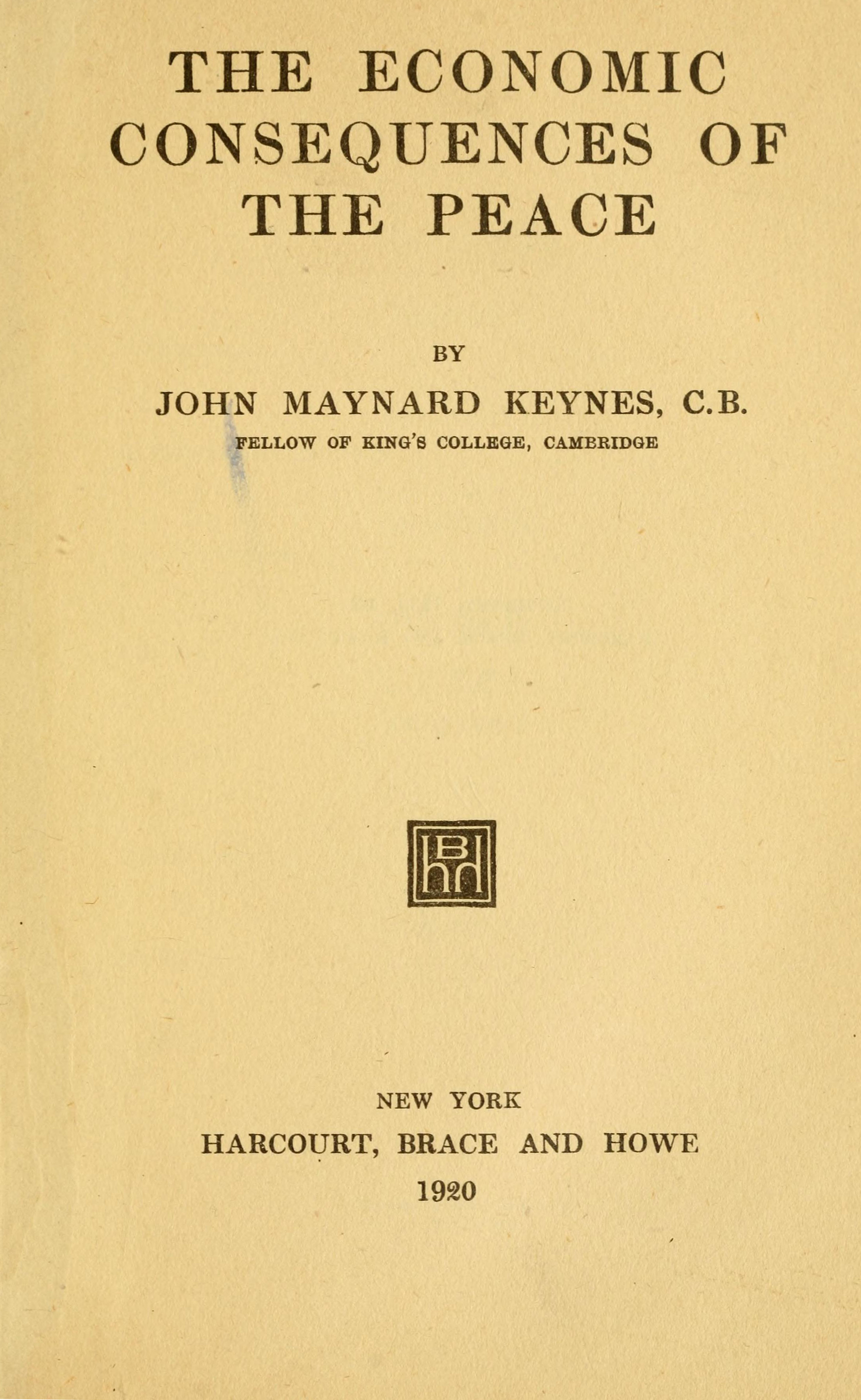 Title page of the American edition